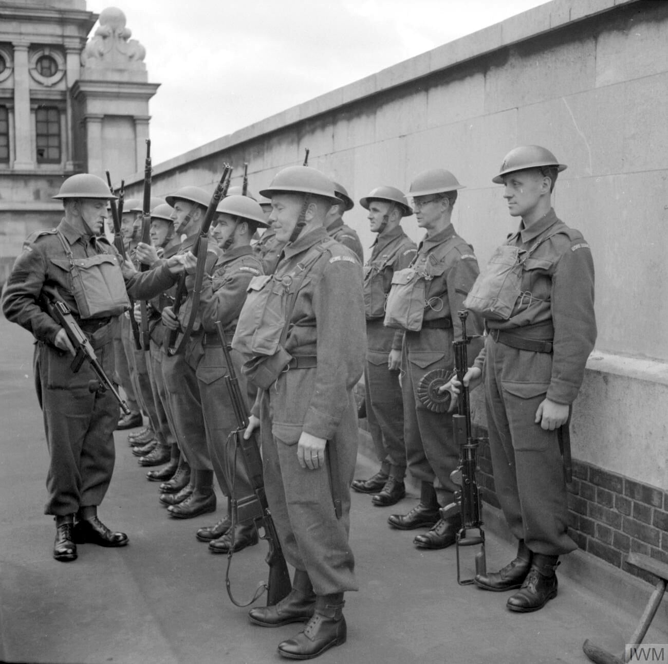 The Home Guard 1939-45 Men of the War Office Home Guard parade on the roof of their building, 15 October 1941.